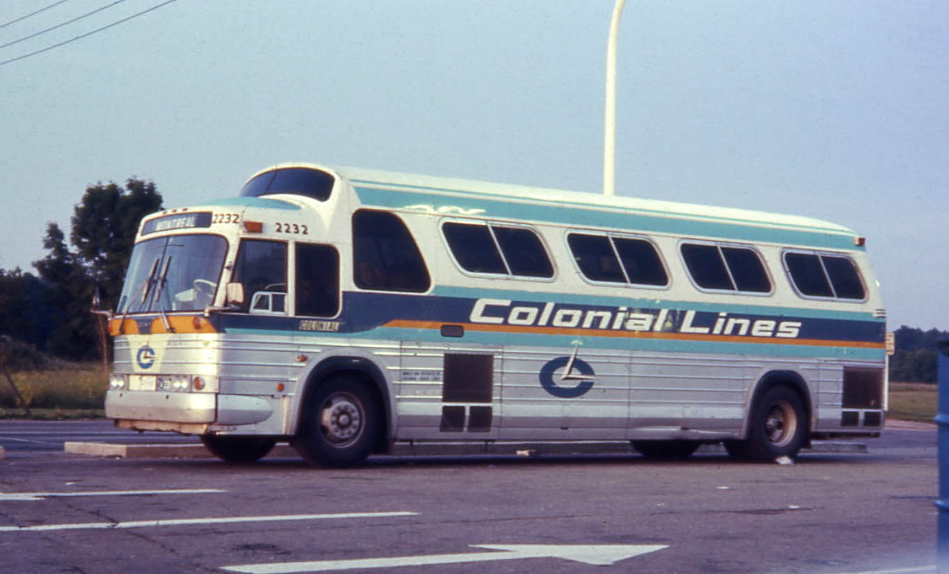 Colonial Coach Lines coach 2232, a 1966 PD-4107, in Ontario